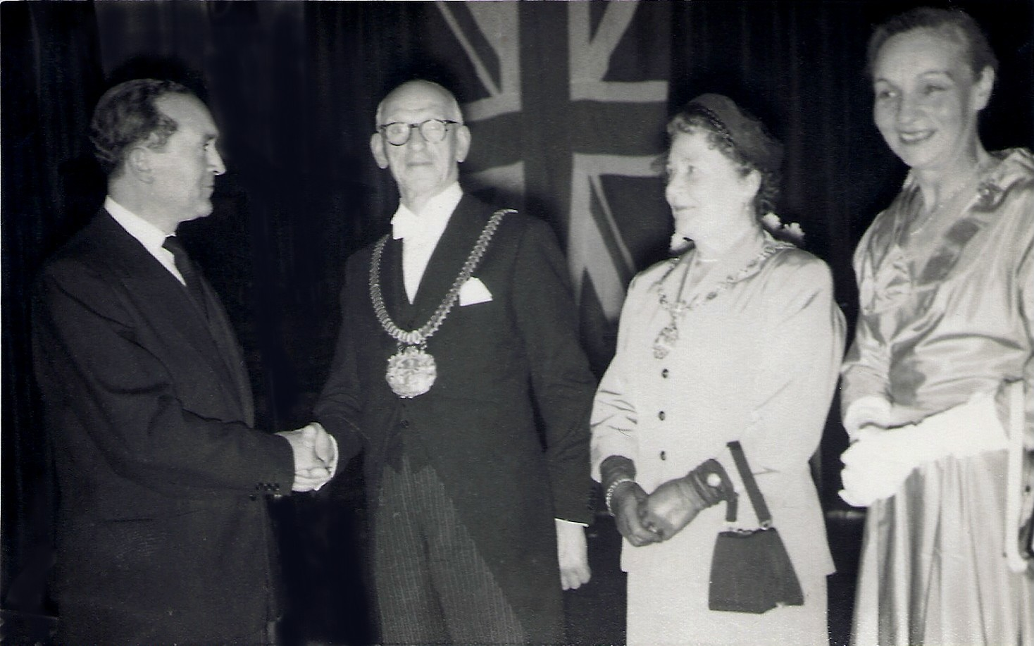 The french General Consul in London Francois de Vail and his wife meeting the lord-mayor 1962